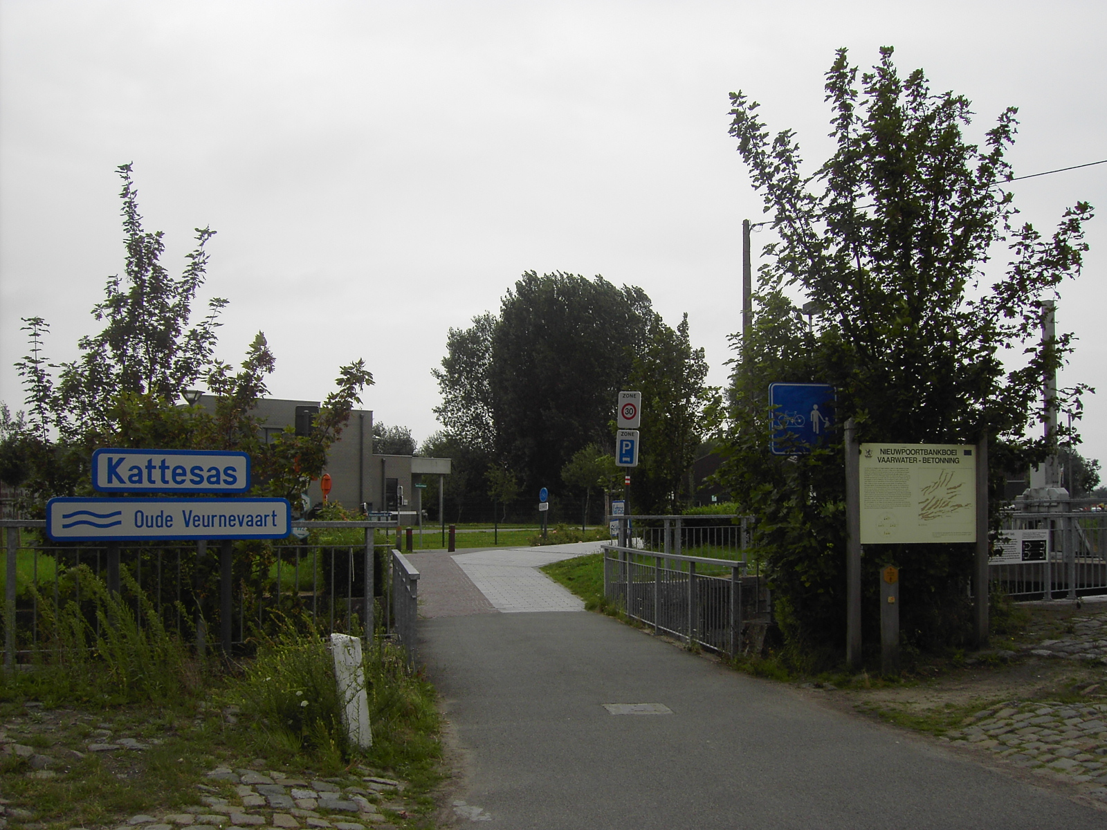 Bridge on the former lock of the Oude Veurnevaart.